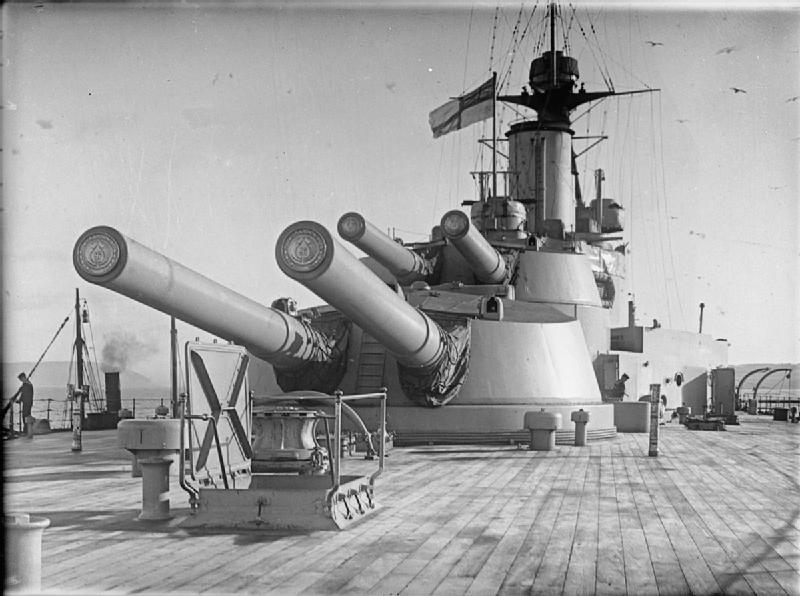 IWM caption : "The after 13.5-inch turrets of the battleship HMS EMPEROR OF INDIA."